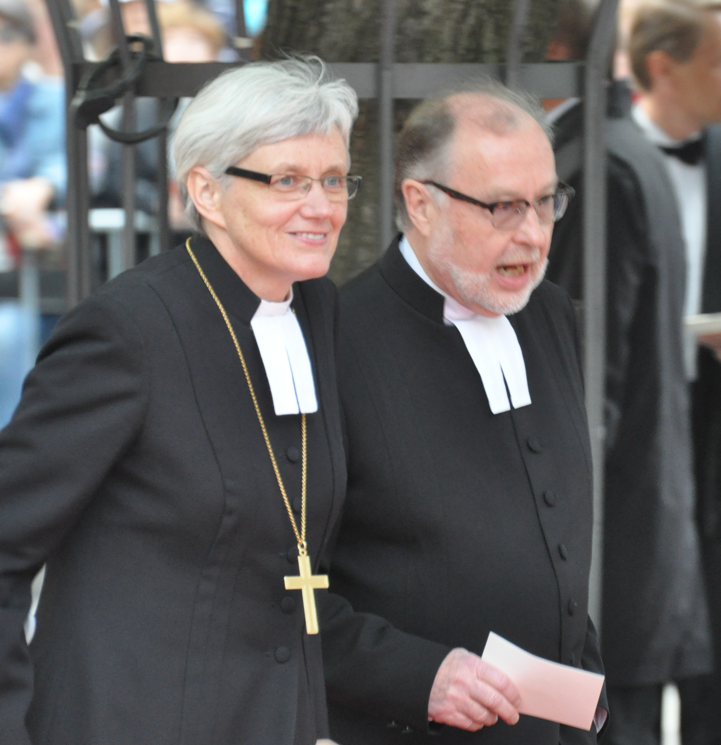 Wedding of Victoria, Crown Princess of Sweden, and Daniel Westling; Arrival of members for the Gouvernment and Swedish and foreign guests of hounour - here the bishop of Lund Antje Jackelén and her husband, vicar Heinz Jackelén - to the Riksdag's Gala Performance at Konserthuset